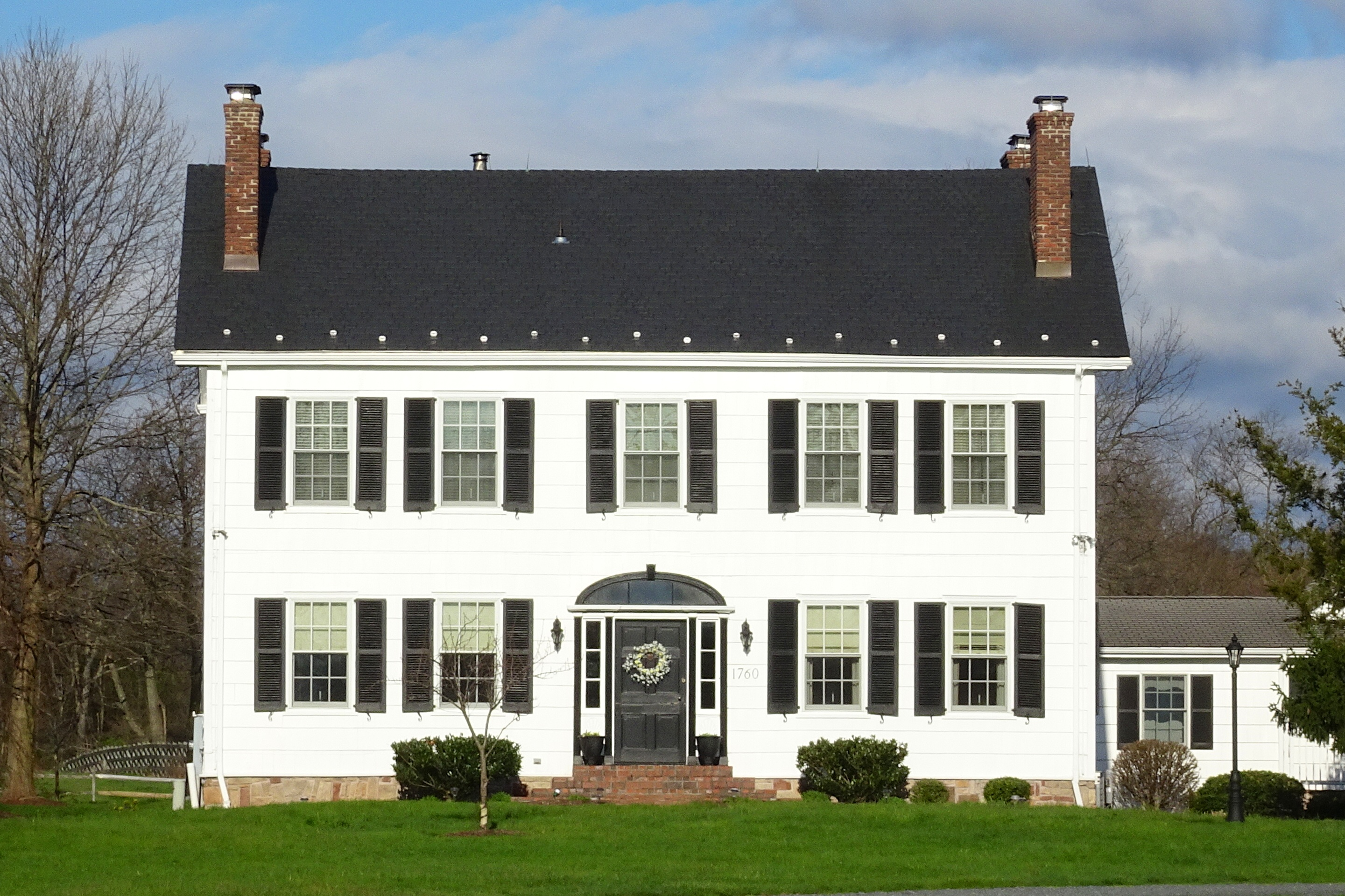 Blackwell's Mills Farmhouse in the Millstone Valley Agricultural District. Built early 19th century. Contributing property.